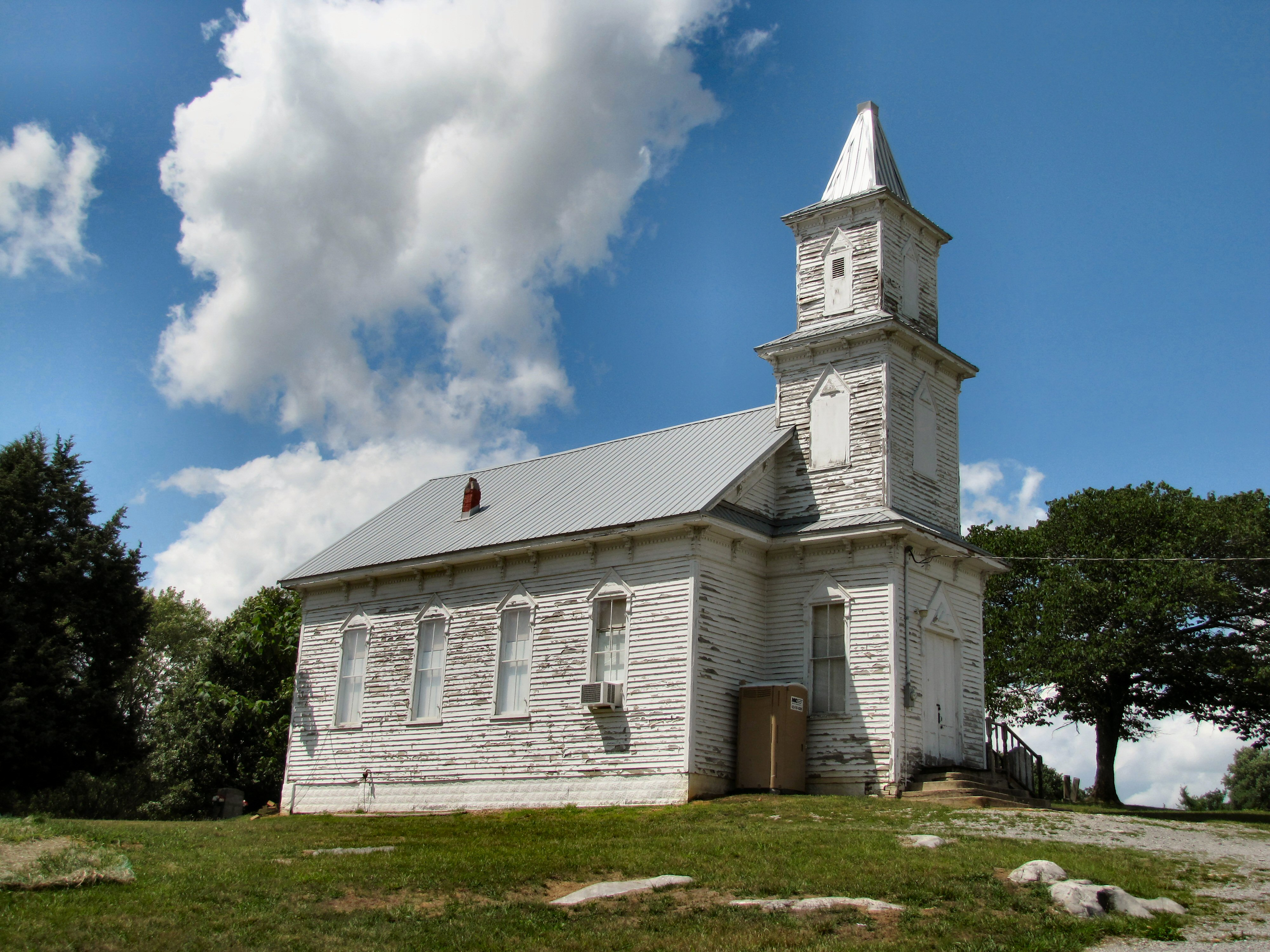 The Blue Springs Lutheran Church in Mosheim, Tennessee, United States. The church was built in 1893, and its congregation was established in 1811.